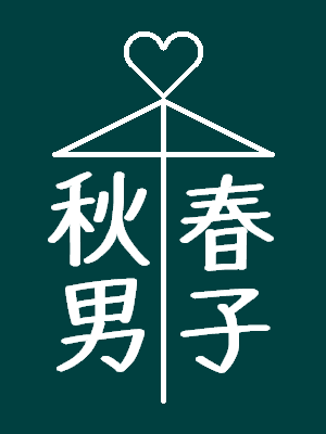 "Aiaigasa", it is one of the Japanese graffitis. It imitates a couple entering under an umbrella. The names of a couple are written on both sides of a vertical line.